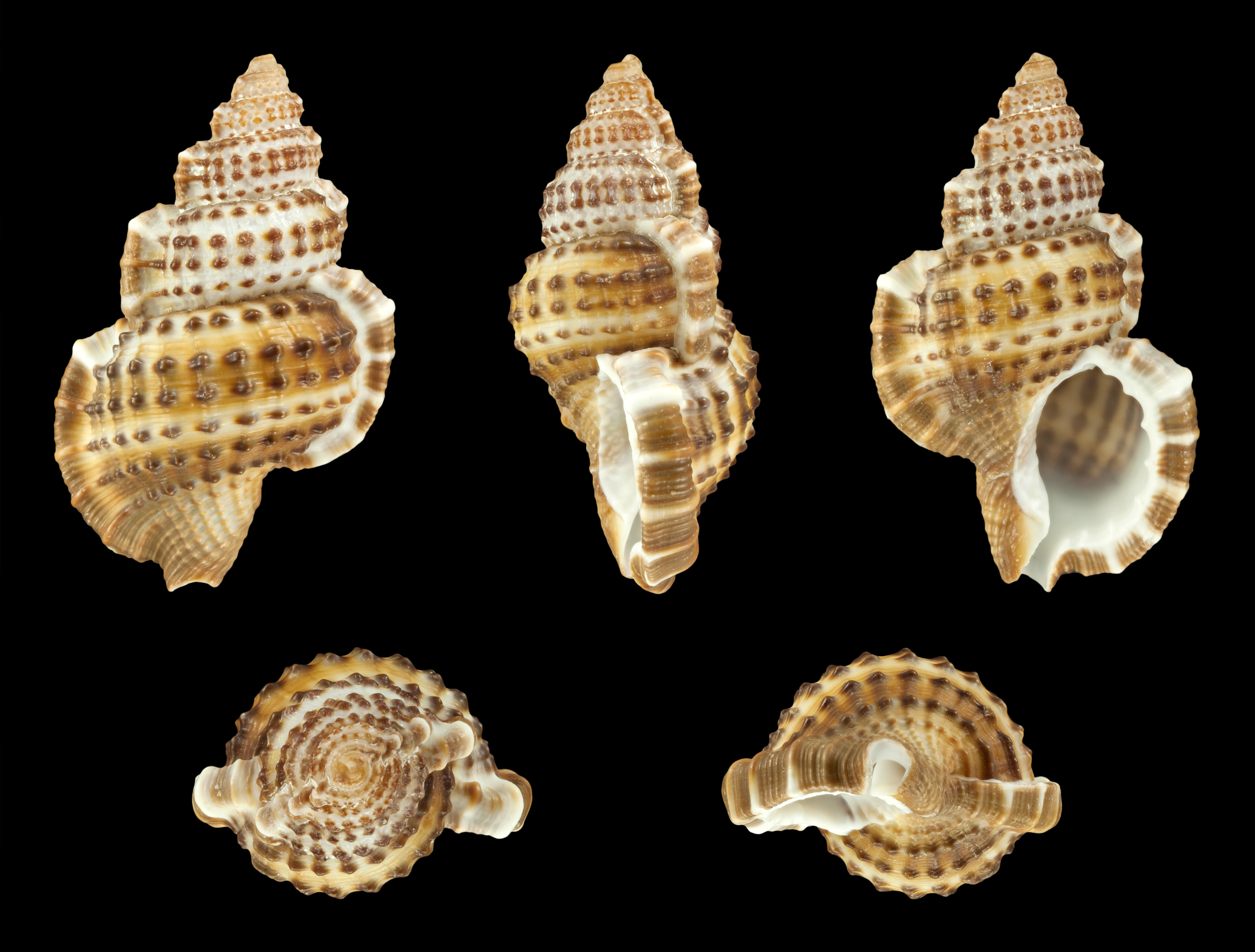 Bursa granularis Röding, 1798, Granular frog shell; length 4.0 cm; Originating from India; Shell of own collection, therefore not geocoded.